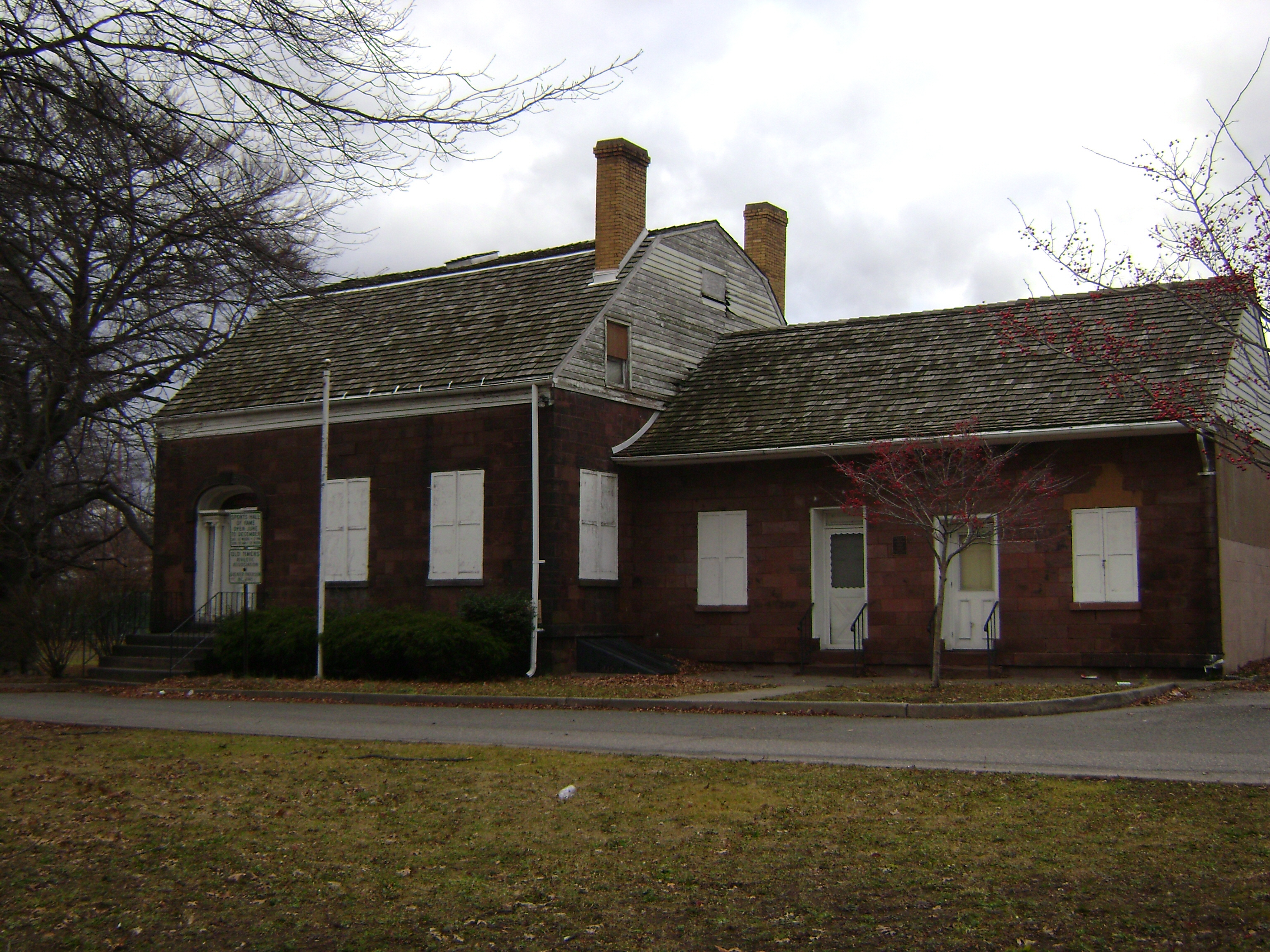 The Van Houten House, in Westside Park, a National and State Historic Place located in Paterson, New Jersey. The house was built in 1831.